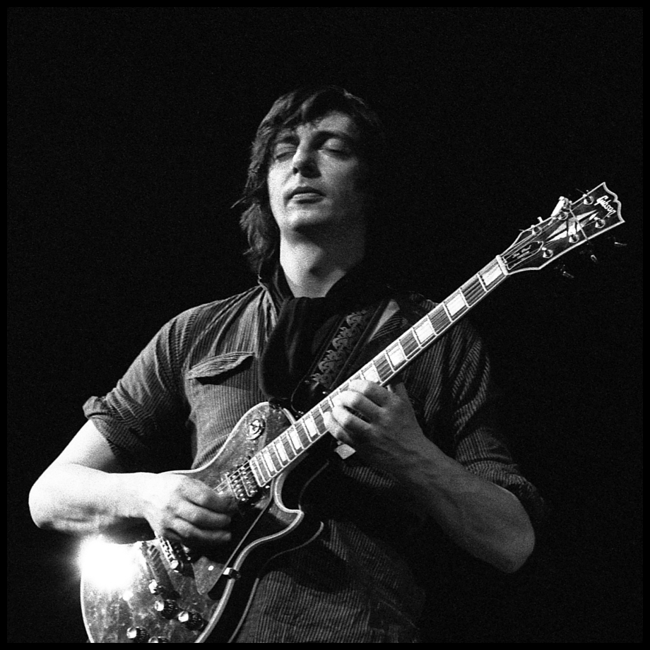 Philip Chatherine with 'Pork Pie', end of the 1970s in the Opernhaus Wuppertal.